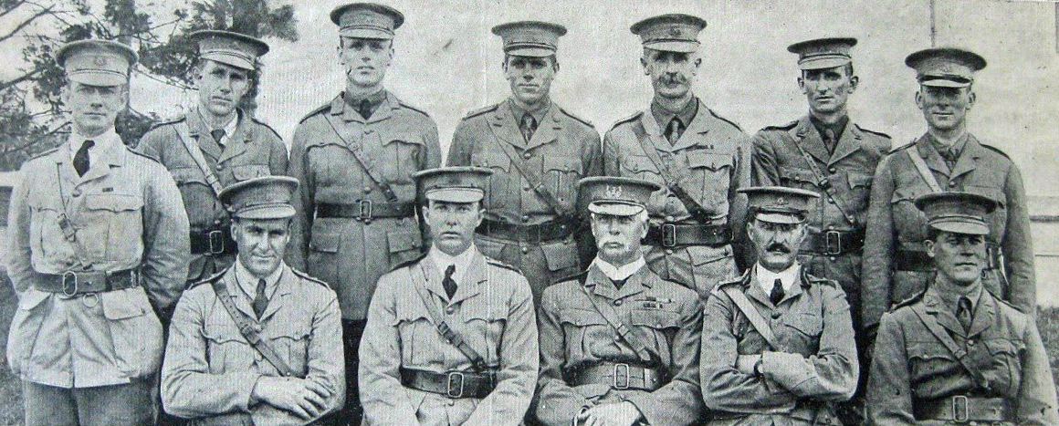 New South Wales and Queensland Officers 1914